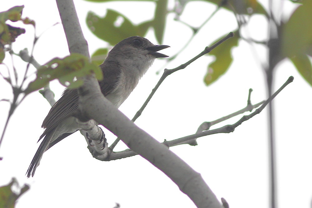 Mangrove Whistler Sundarban West Bengal India August 2019.